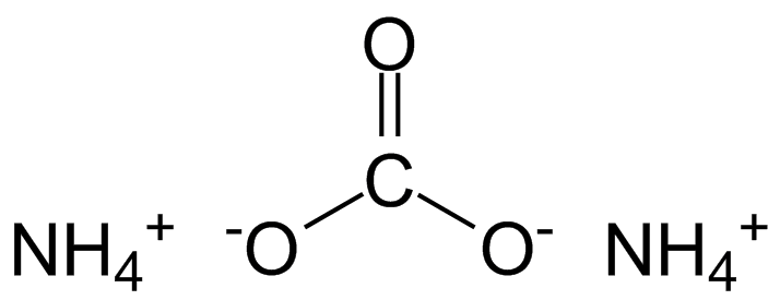 chemical structure of ammonium carbonate